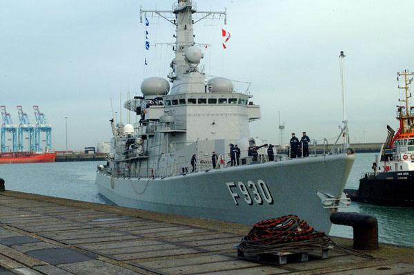 The F930 Leopold I, a Karel Doorman-class vessel, reaches the harbour of Zeebrugge in Belgium, after being refurbished. The vessel was sold to Belgium by The Netherlands in 2007.